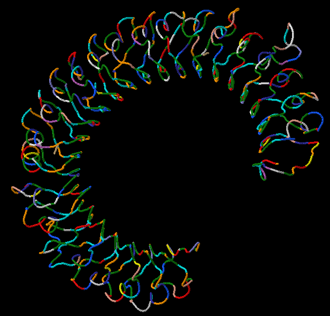 Toll-like Receptor Domain